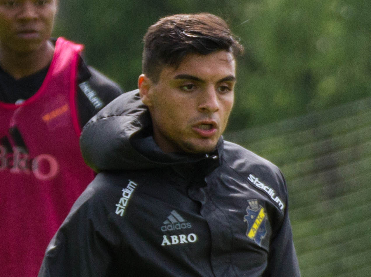 Ahmed Yasin training with AIK in 2016. Photo by Jakob Persson.